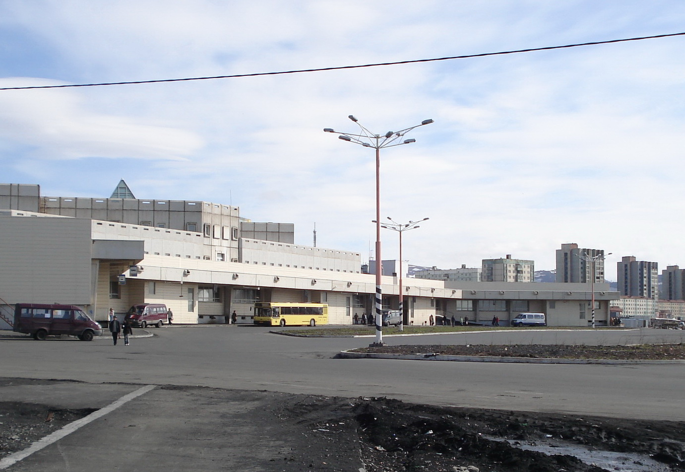 Norilskbus.